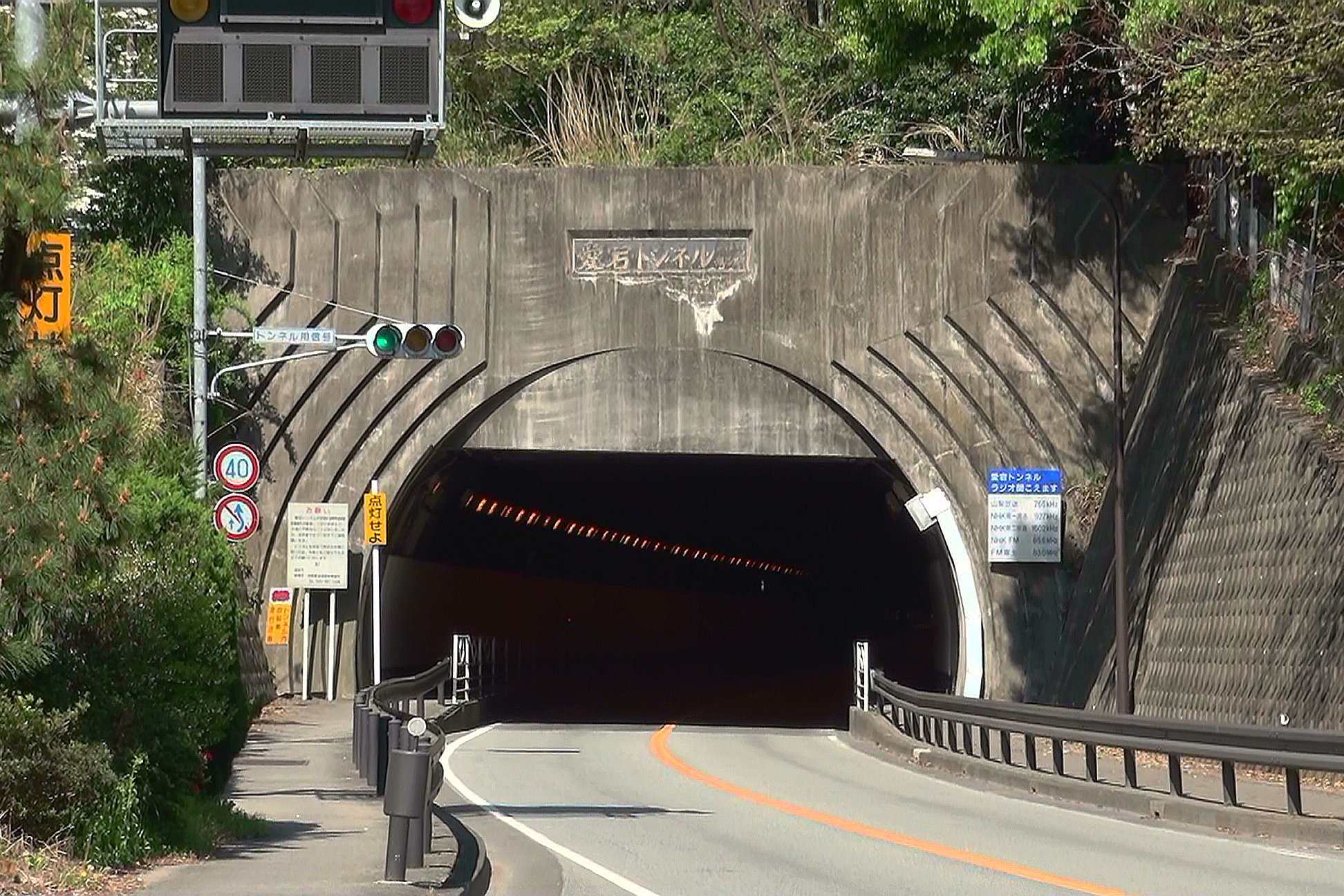 The east exit of Atago tunnel Kofu-city